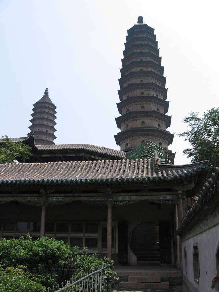 Pagodas of Taiyuan, Shanxi, China